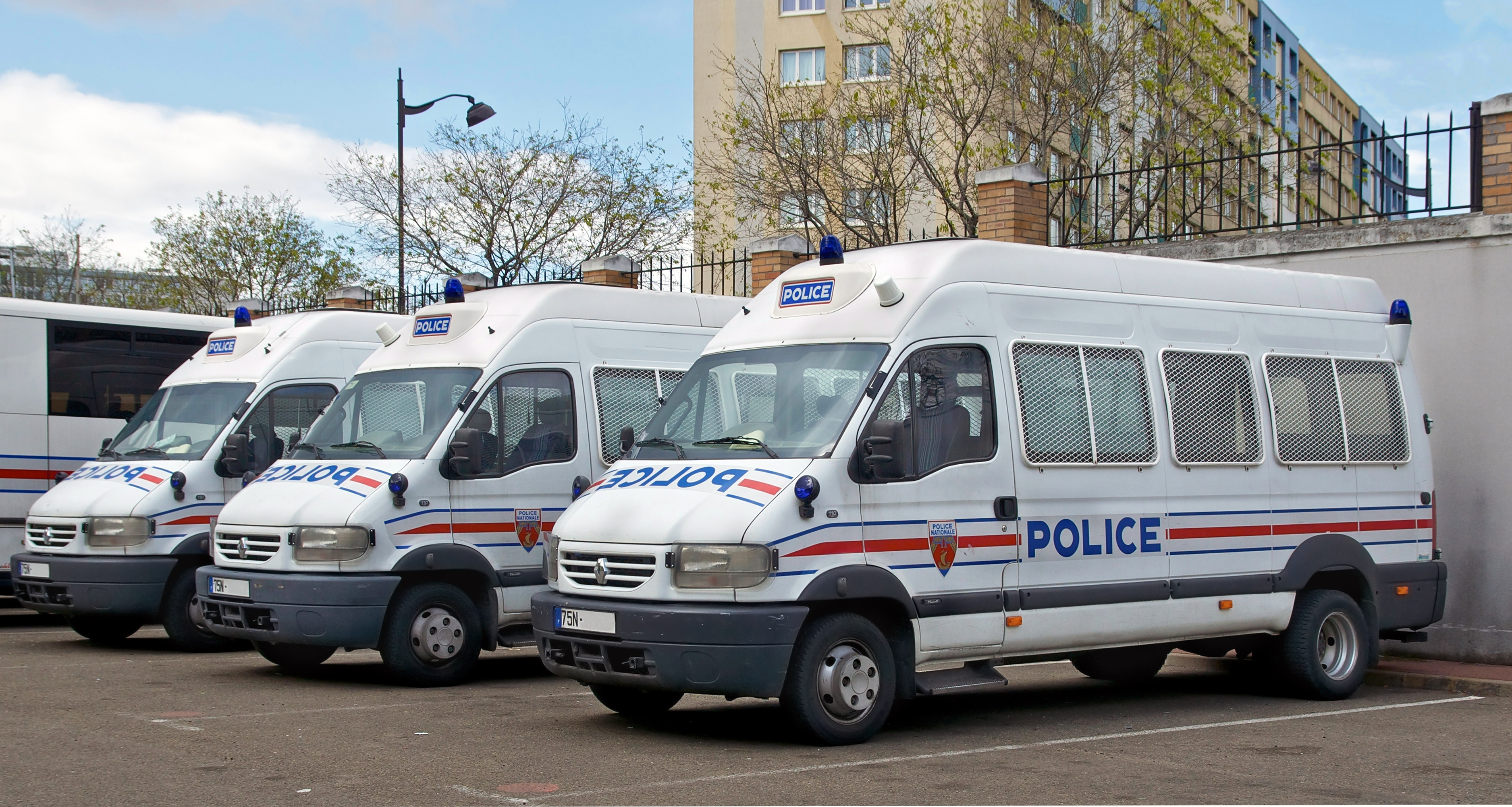 "Renault Mascott" vans of the French National parisian police